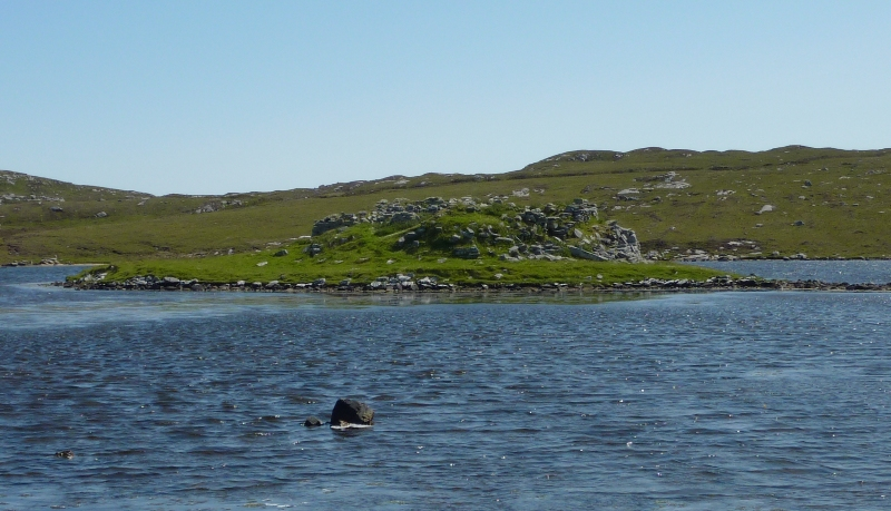 Dun an Sticir, North Uist, Outer Hebrides, Scotland